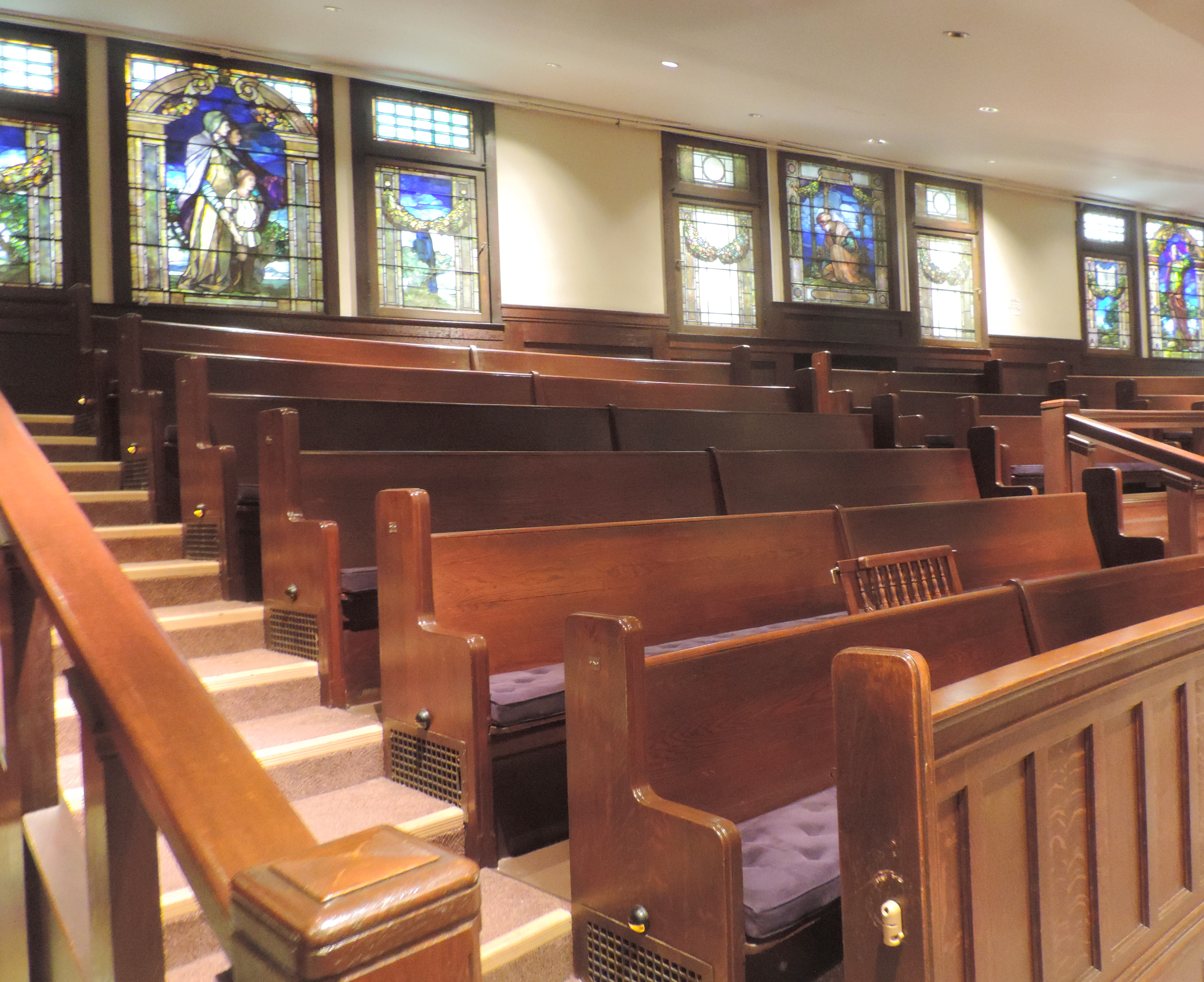 Looking east at pews and stained glass windows of back section of Concert Hall main level